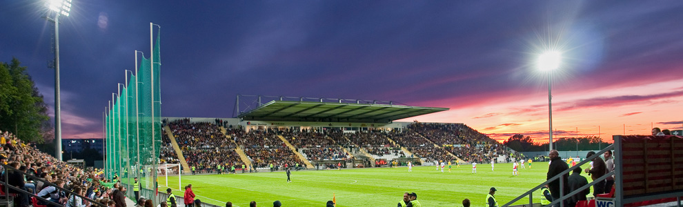 ARVI Arena Mariampole